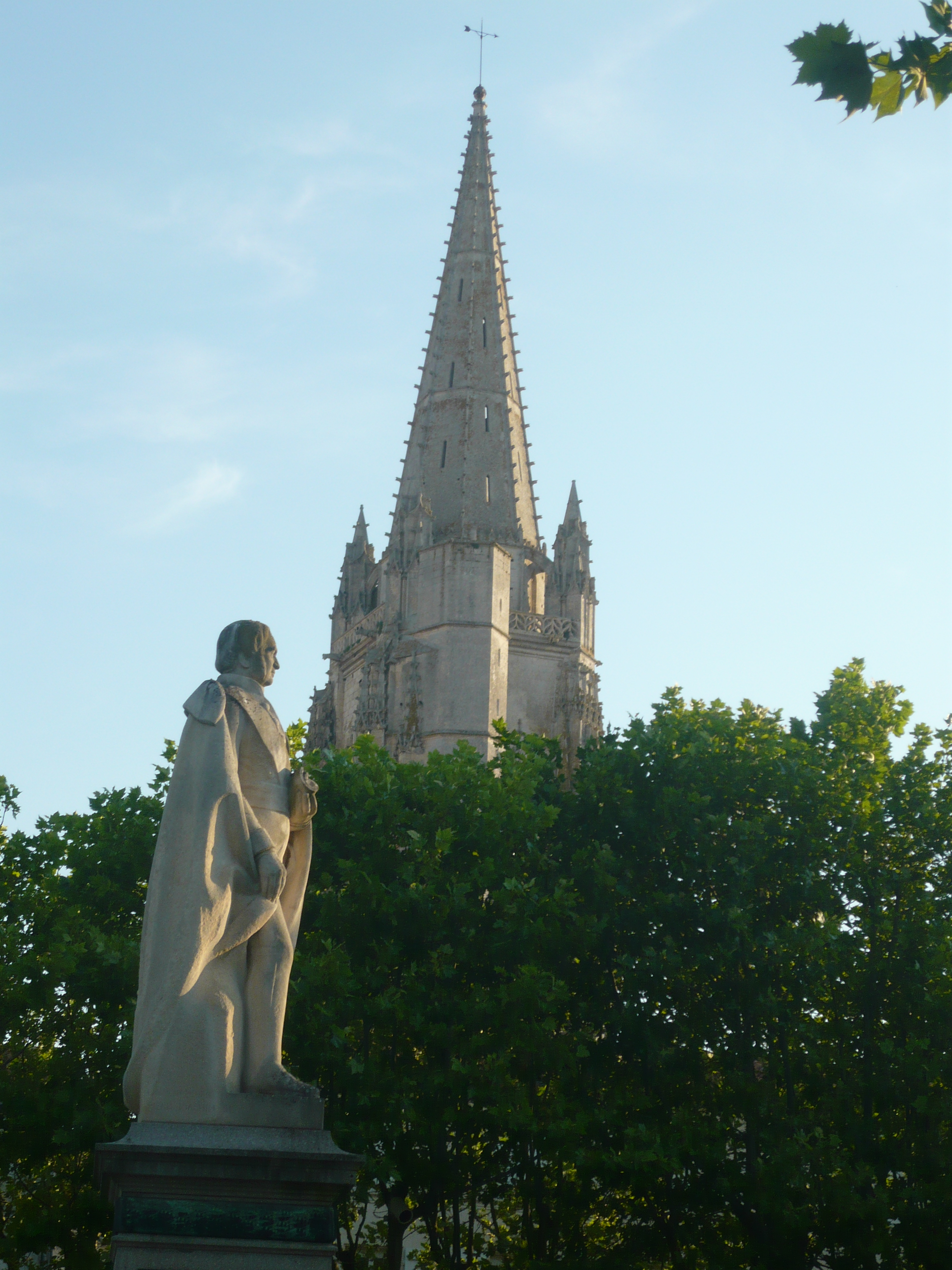 La statue Chasseloup-Laubat et le clocher de l'église Saint-Pierre de Sales à Marennes.